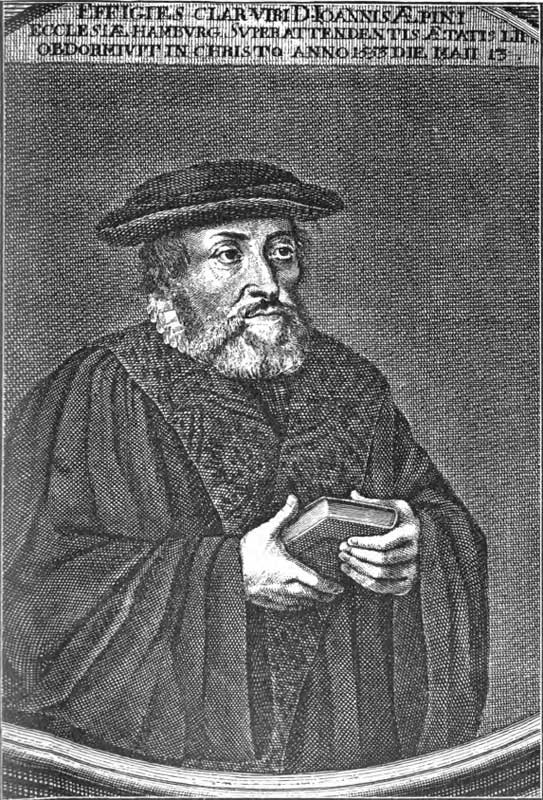 Johannes Aepinus, (1499-1553), german church reformer